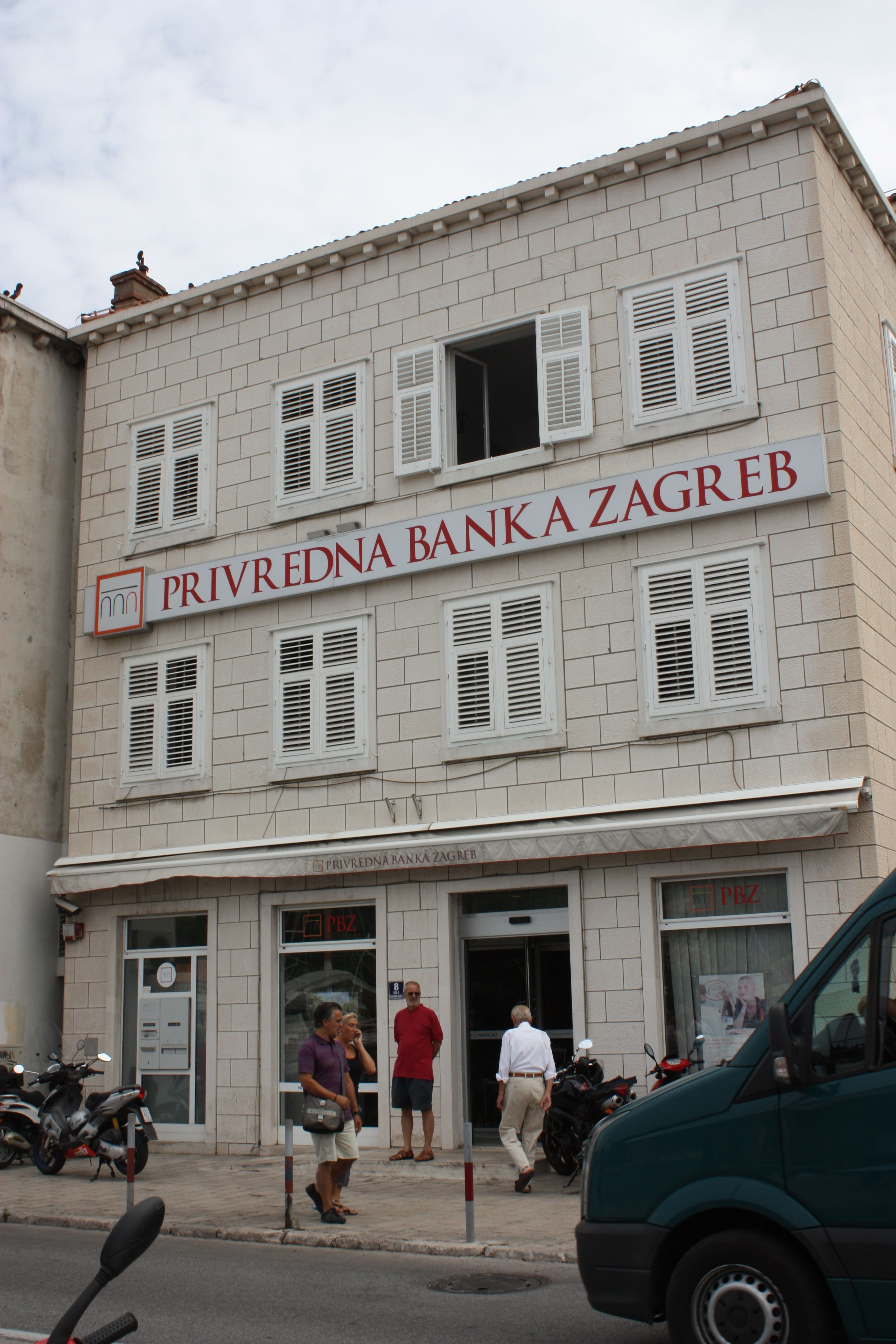 Privredna Banka Zagreb, Obala Stjepana Radića, Gruž, Dubrovnik, Croatia, July 2011